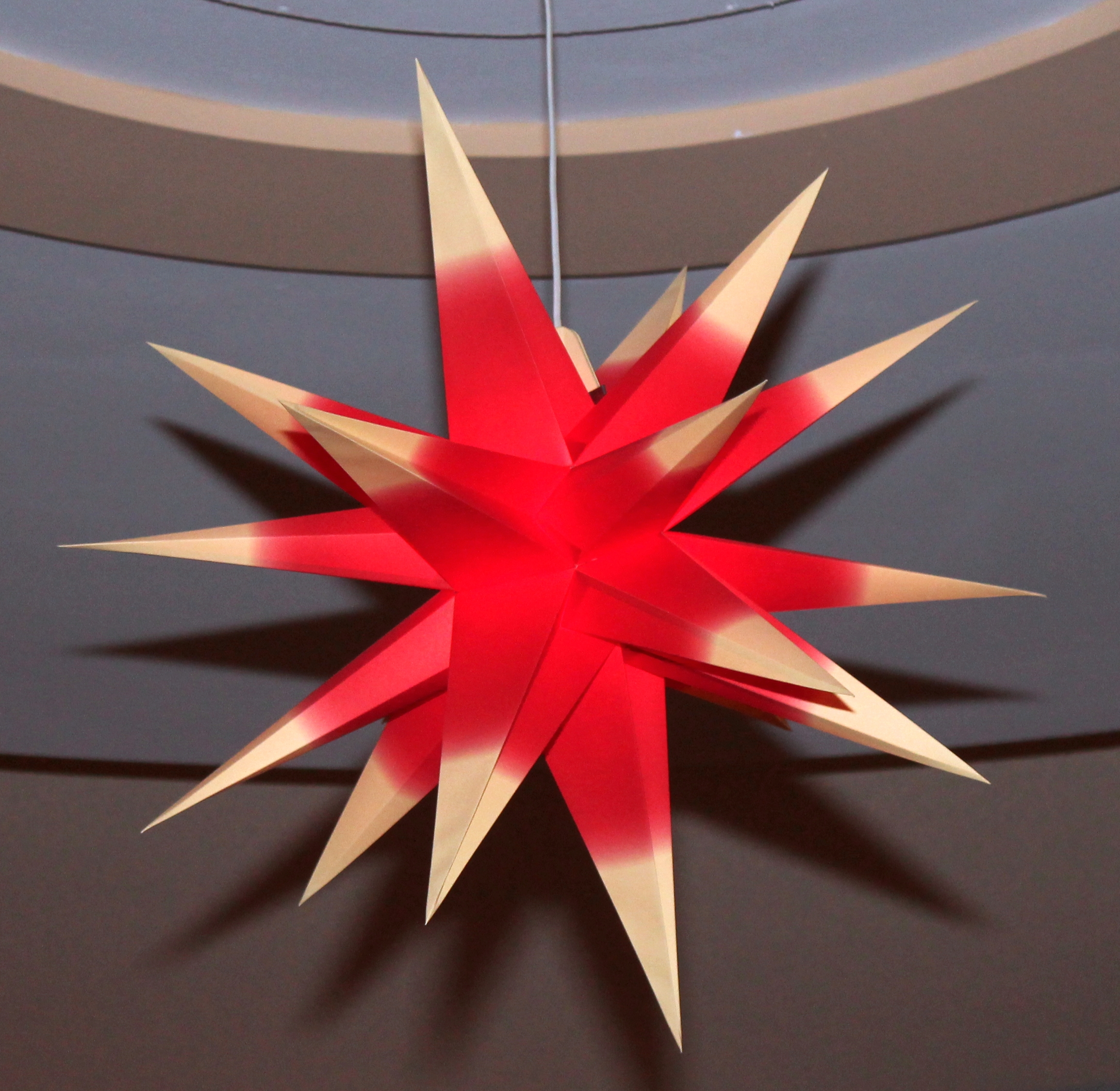 Luminous christmas star from Annaberg, Saxony, Germany.